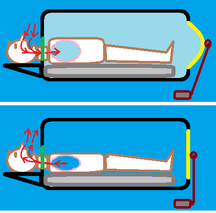 This diagram depicts the basic form and function of a typical negative-pressure medical ventilator ("iron lung"), which is used to help a person breathe when their body cannot do so adequately on its own. The iron lung is an enclosed, sealed cylinder. The patient (white) lays inside the horizontal cylinder (black), with only their head protruding out through an opening in the end of the cylinder. The opening is sealed around their neck with a sealing collar (green) to avoid air leaking into or out of the cylinder chamber. An electric motor (brown) is connected, by mechanical linkage to a flexible diaphragm (yellow), which it expands and contracts, continuously, varying the air pressure inside the cylinder chamber. When the diaphragm extends, the pressure in the chamber is lowered.-- causing the patient's chest (and lungs) to expand -- inhaling air from the outside, through patient's nose or mouth. When the diaphragm contracts, the chamber pressure returns to normal, and the patient's chest relaxes, contracting and forcing out air (exhaling). The motor pumps the diaphragm continuously, to maintain continuous airway ventilation (artificial breathing) of the patient